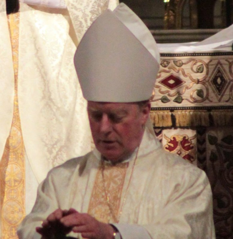 Bishop Thomas McMahon lays hands on Keith Newton whilst the Archbishop of Westminster looks on